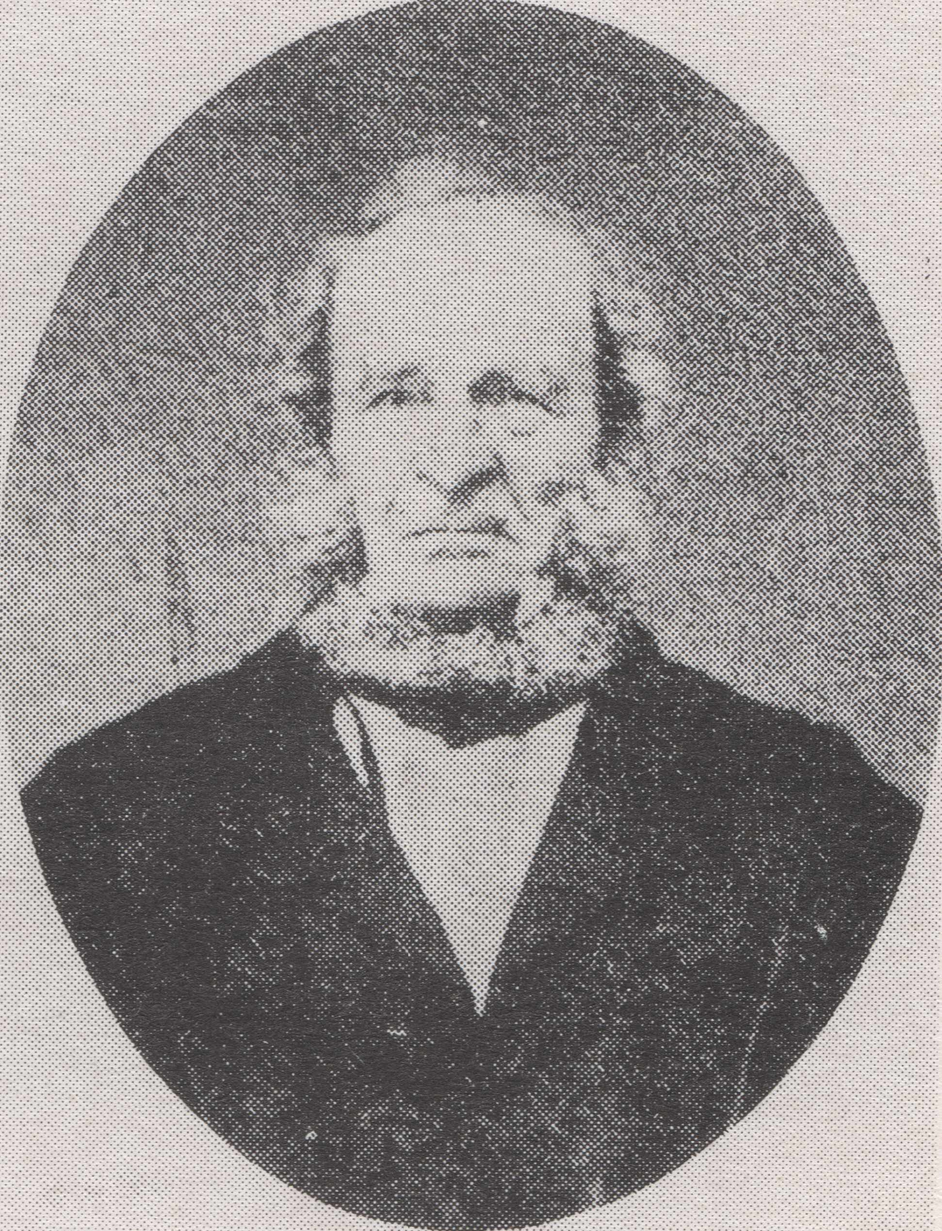 Copy of a photograph of George Porter, whaler and South Australian pioneer